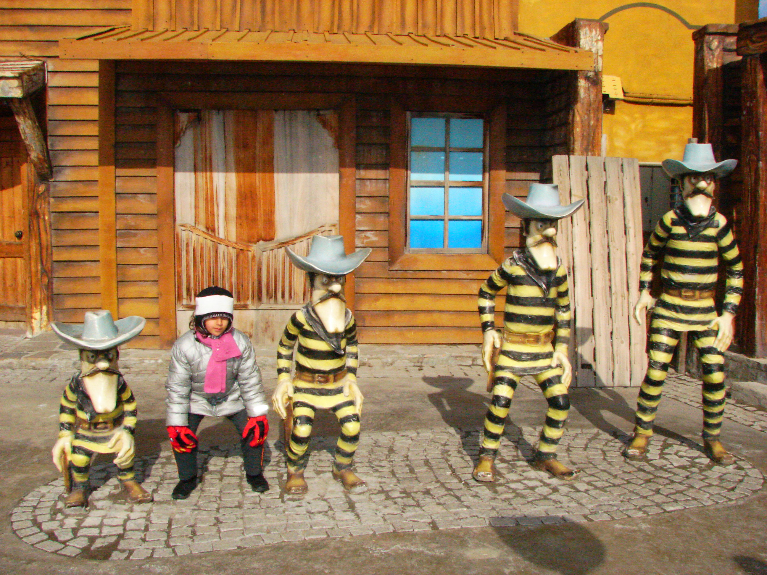 Lucky Luke, Ankara Amusement Park